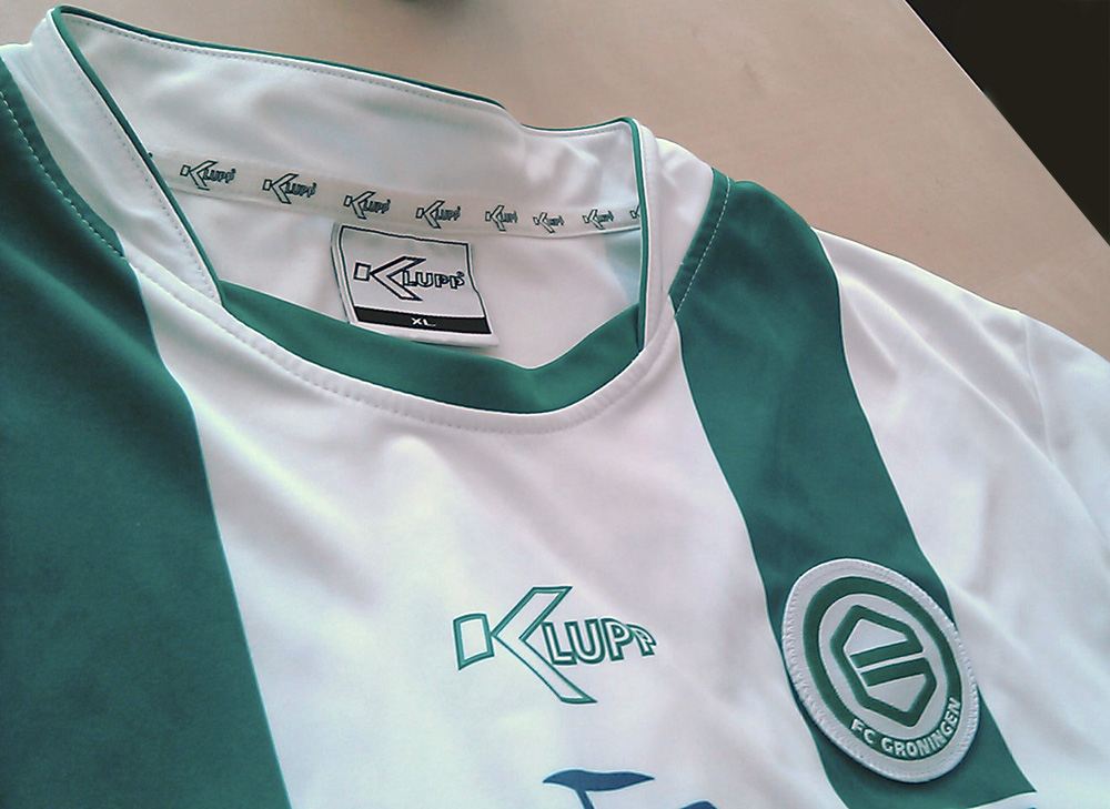 FC Groningen shirt 2008/09 with the Klupp Sportswear brand